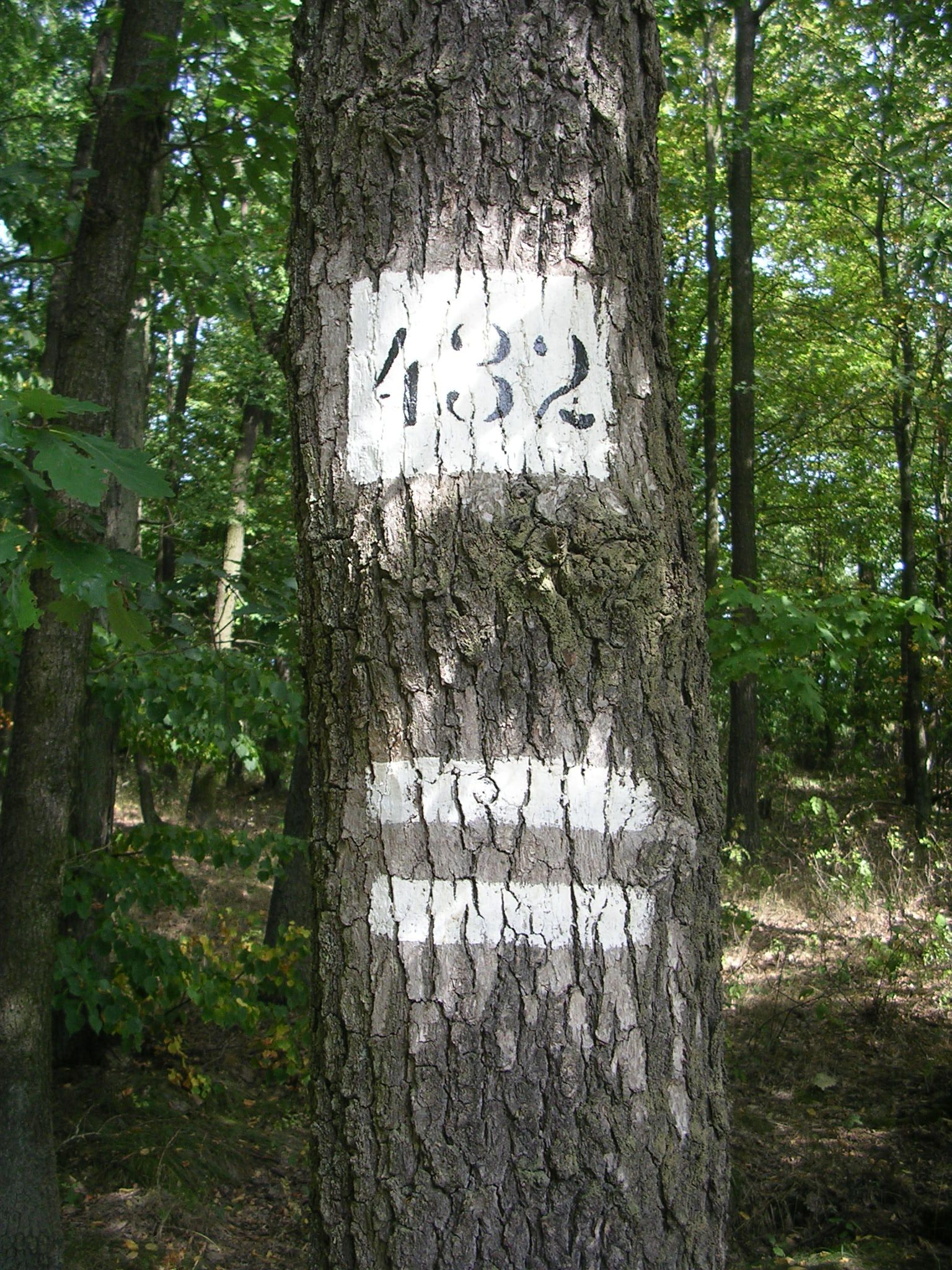 Roztoky, Rakovník District, Central Bohemian Region, the Czech Republic. Forestry signs near the road between Karlova Ves and Karlov.